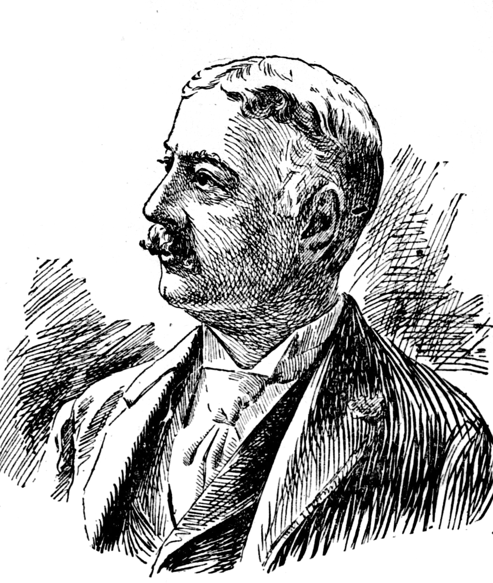 Portrait sketch of photographer Theodore C. Marceau. Based on a photograph by Marceau.